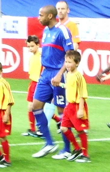 Thierry Henry enter the stadium before the Euro 2008 match Holland - France on 13.06.2008